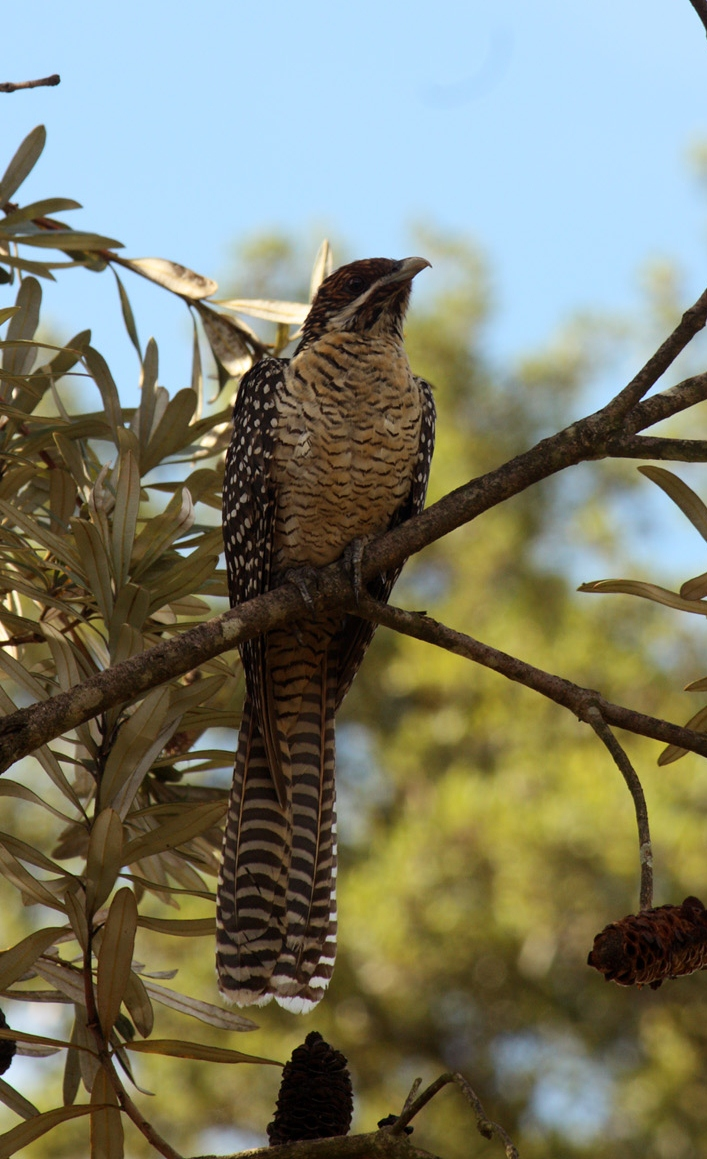 Pacific Koel in Australia. The population breeding in Australia has been considered a separate species, the Australian Koel.